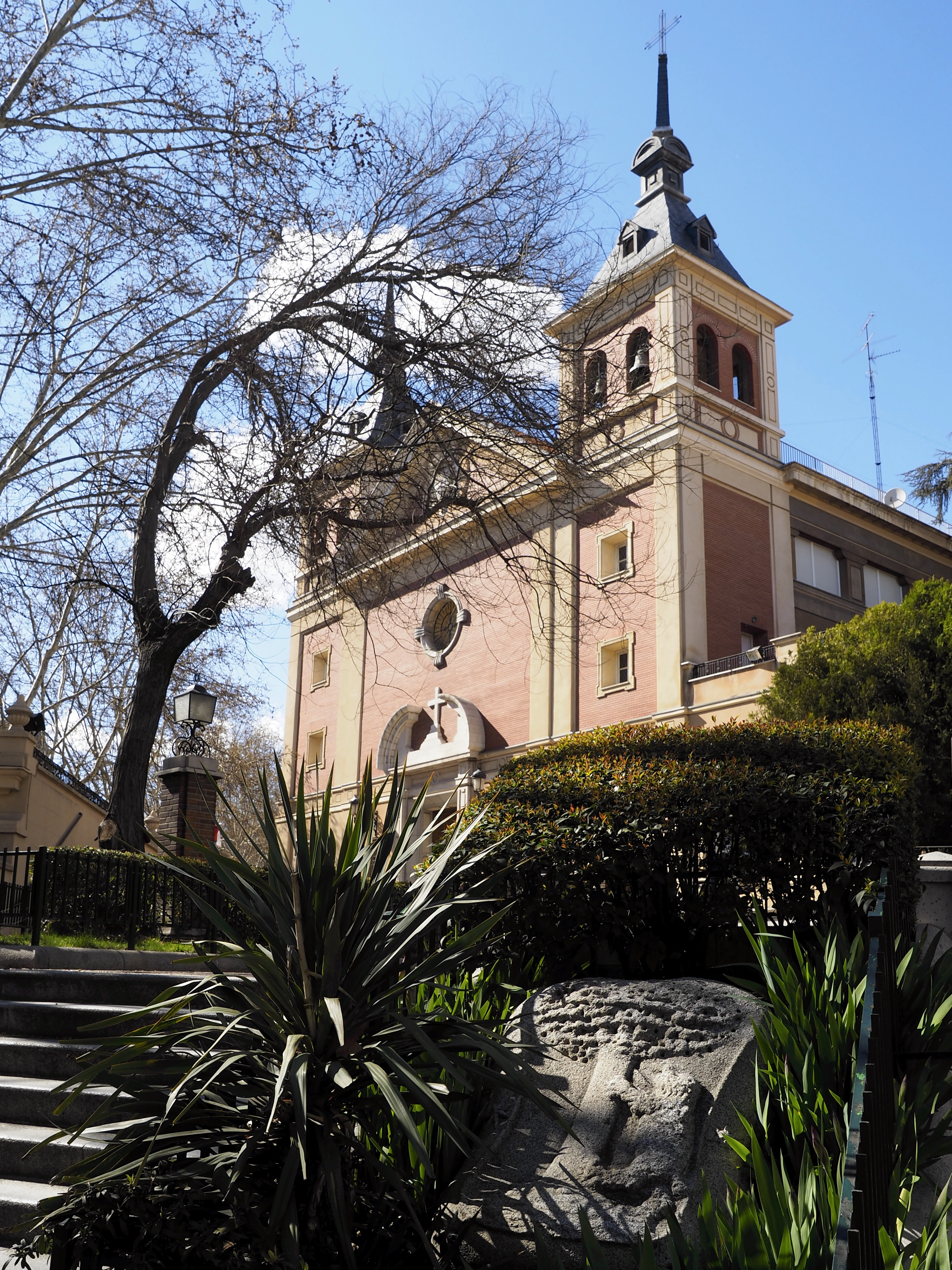 Royal Basilica of Our Lady of Atocha in Madrid